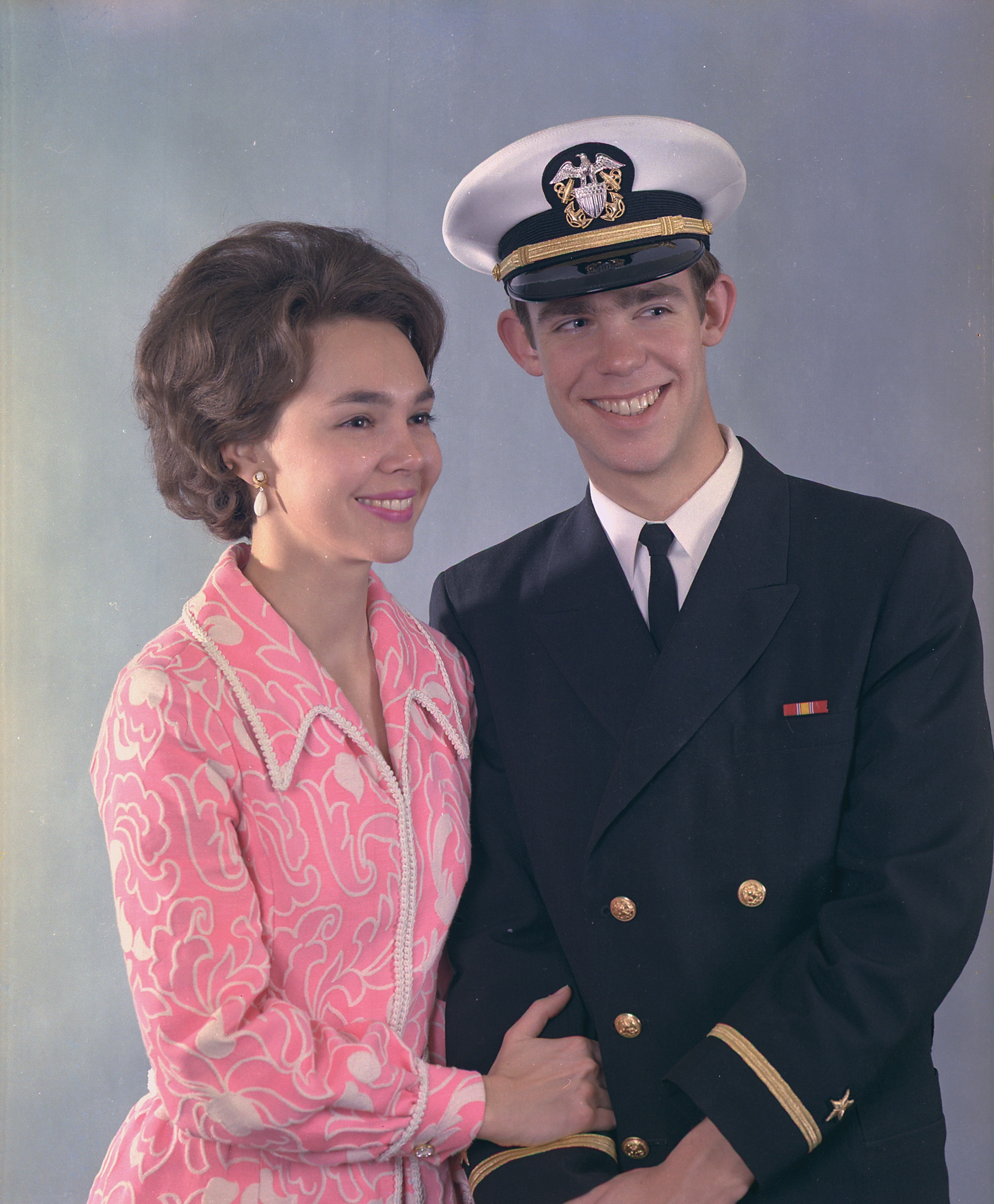 Portrait of Julie and David Eisenhower (David in U.S. naval uniform), grandson of President Dwight D. Eisenhower.